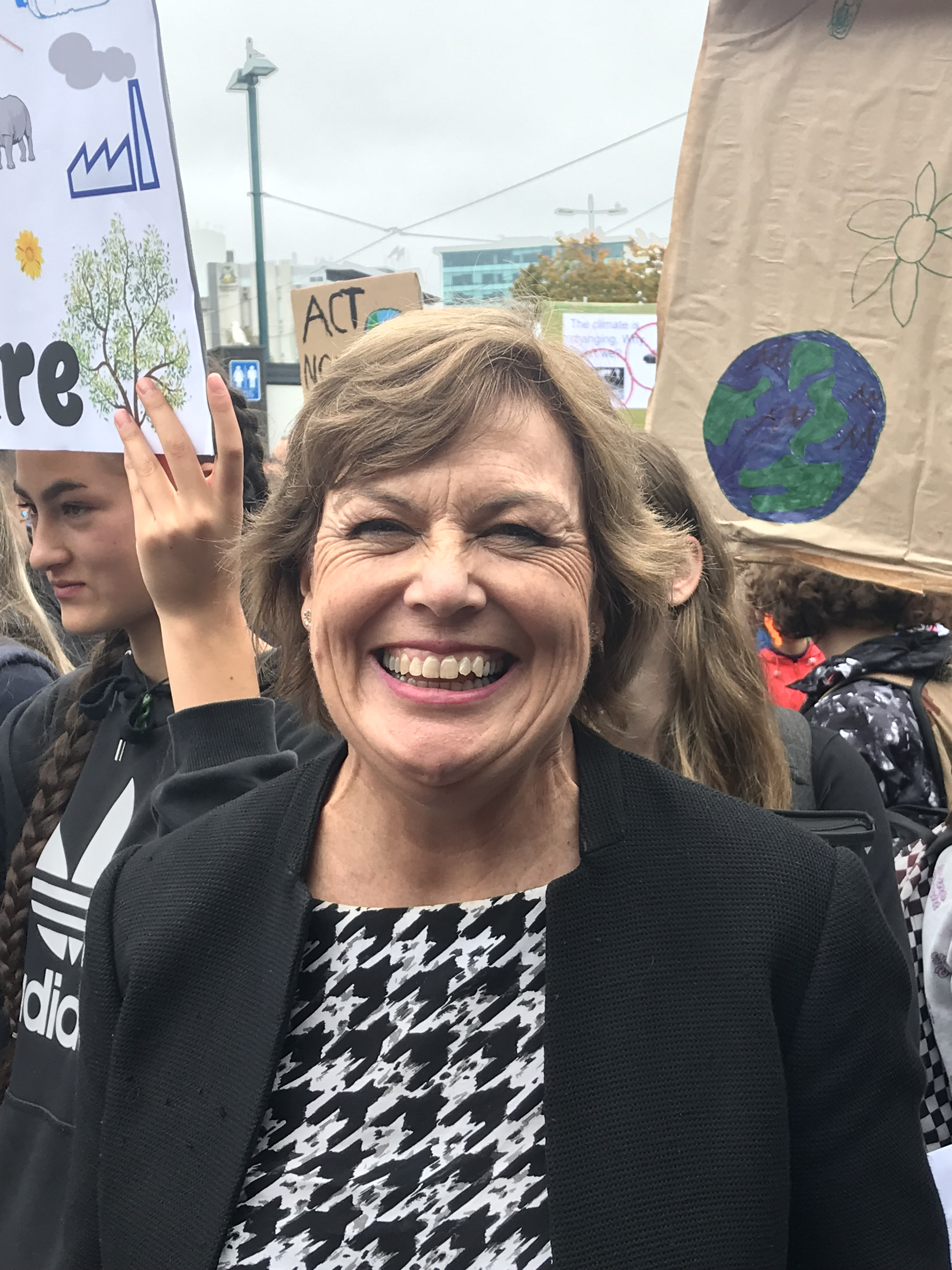 School strikes for climate in Christchurch: Bronwyn Hayward